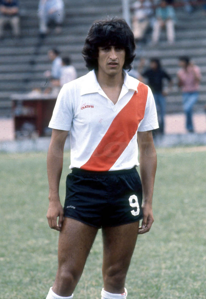 Argentine football forward Ramón Díaz while playing for River Plate.